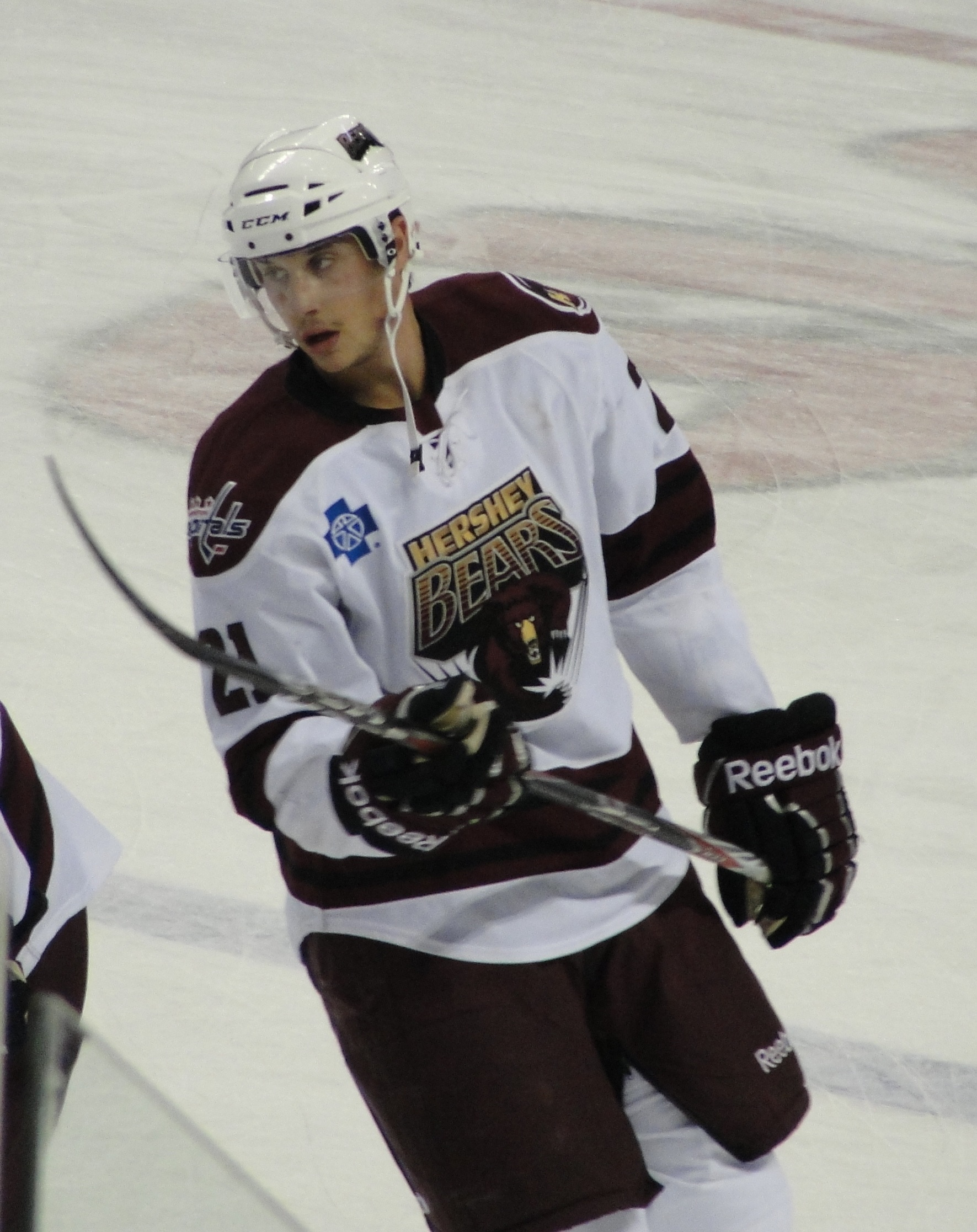 Jay Beagle on November 11 2010 at Giant Center in Hershey PA